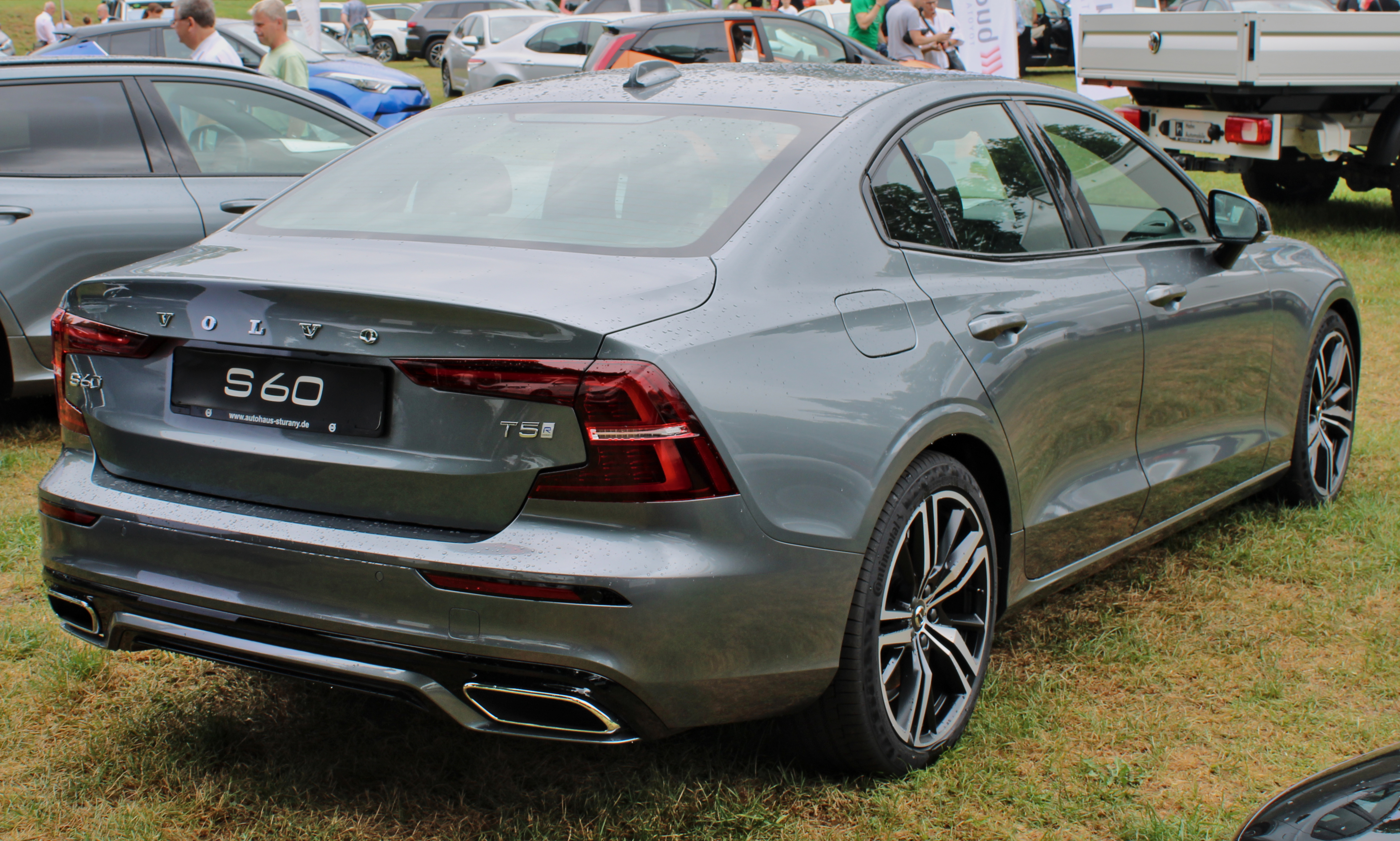 Volvo S60 T5 R at Schloss Monrepos 2019